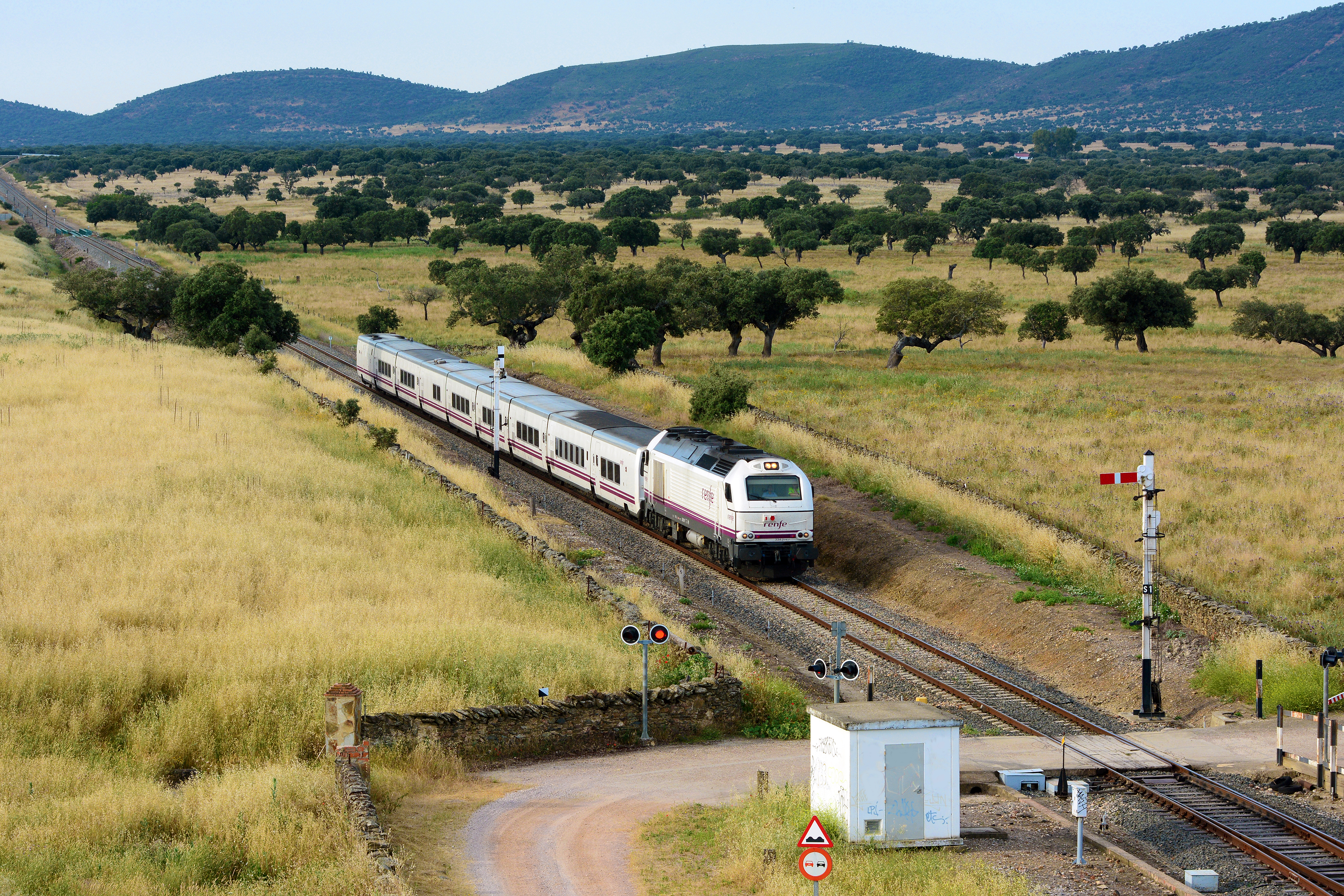 Talgo rumo a estação de Cáceres